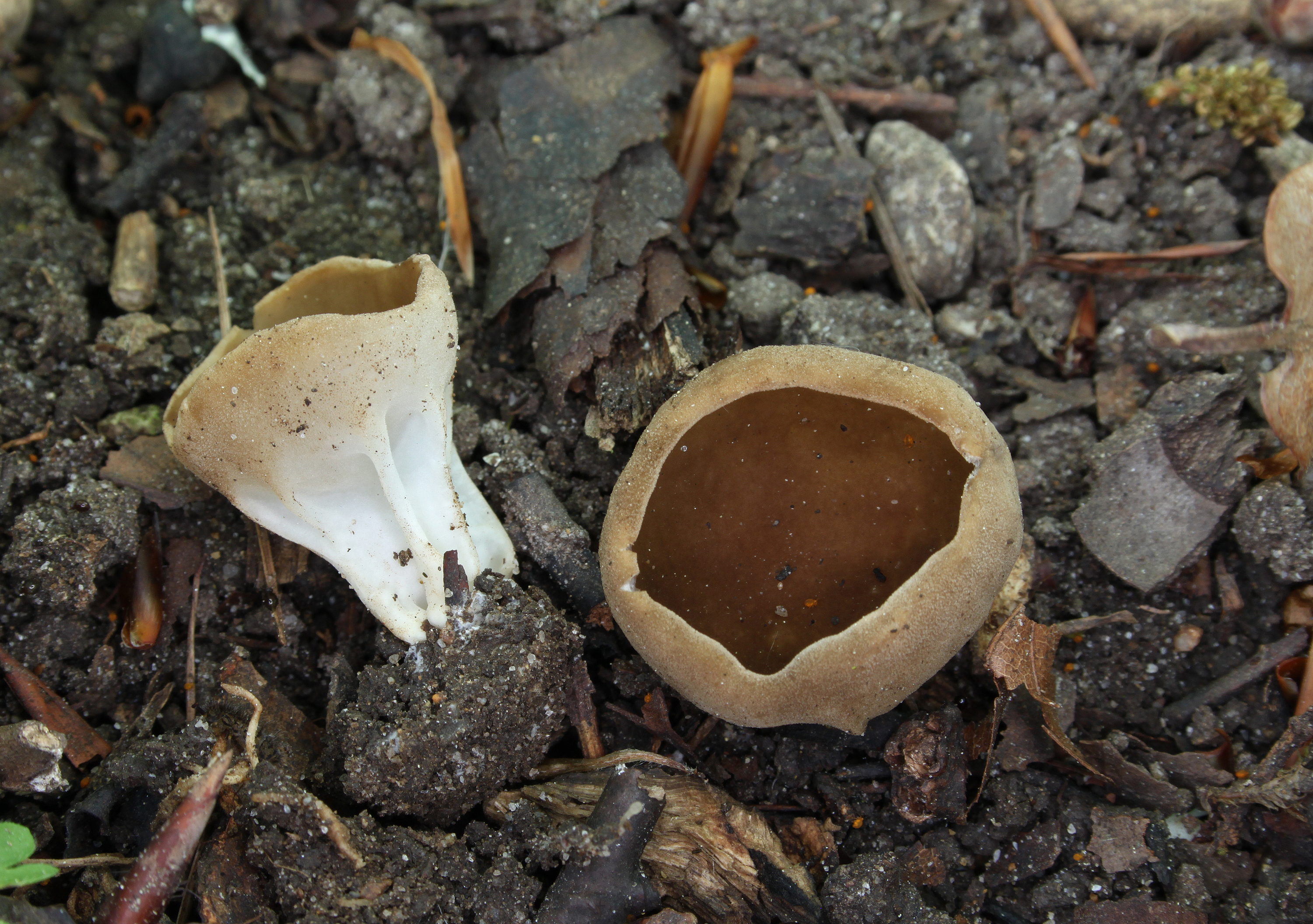 Young Cabbage Leaf Helvella, Helvella acetabulum, Family: Helvellaceae, Location: Germany, Ehingen, Risstissen